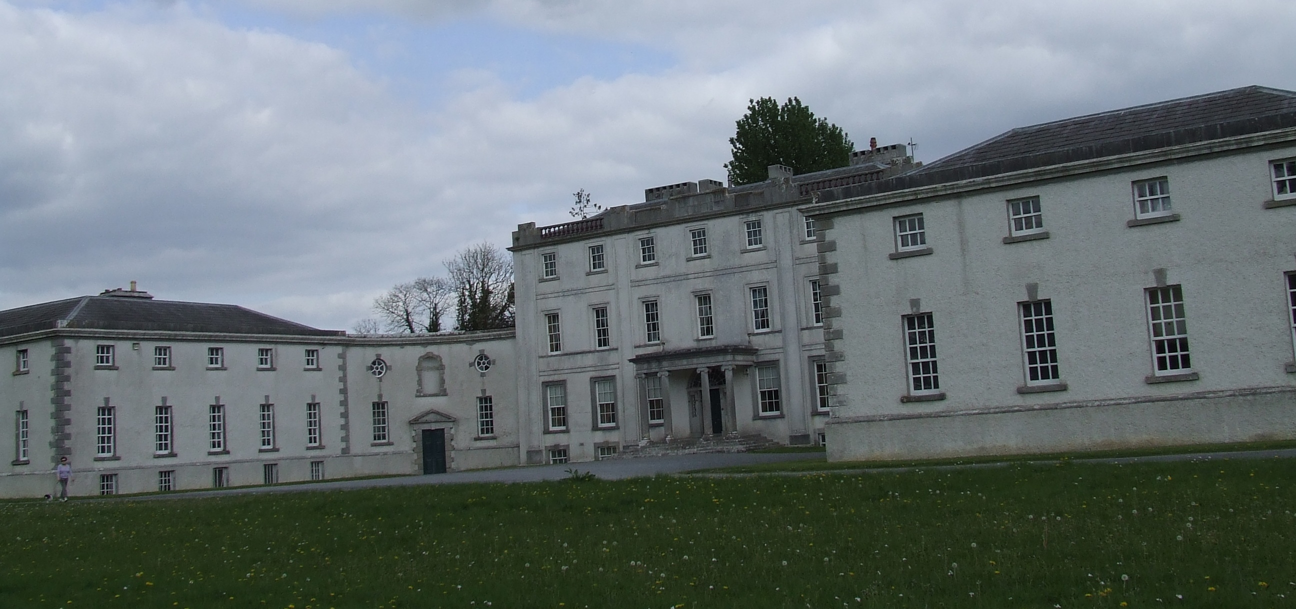 Strokestown Park House, Strokestown, County Roscommon, Ireland. Easter Monday, 2011. A Palladian style great house of Ireland. In the hands of the Cromwellian "adventurer" family - the Pakenham Mahon's until the late 20th century. Currently set in a 300 acre demense, but originally part of an 11,00 acre estate.